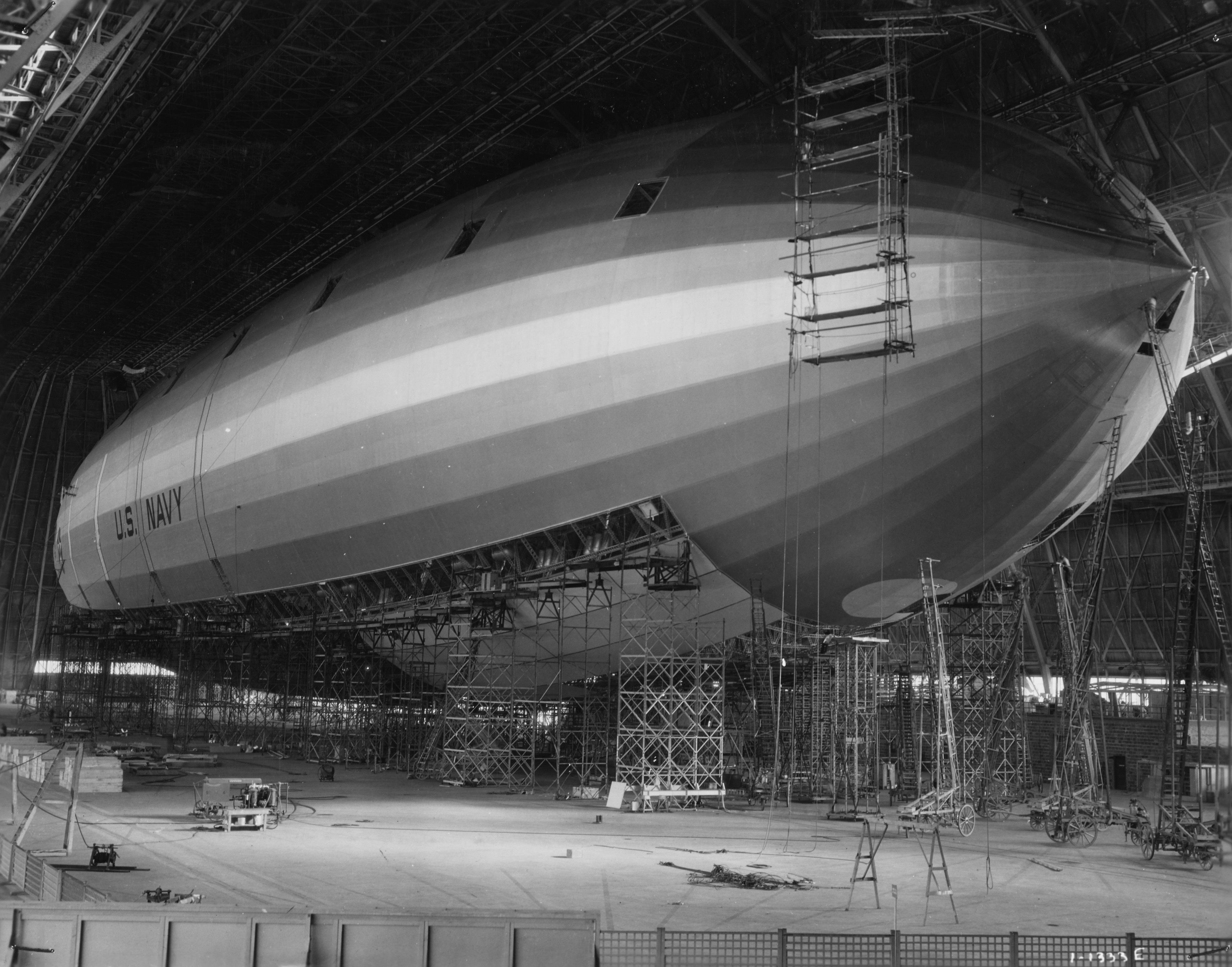 Under construction in the Goodyear-Zeppelin Corporation hangar at Akron, Ohio. Photo NH 42022